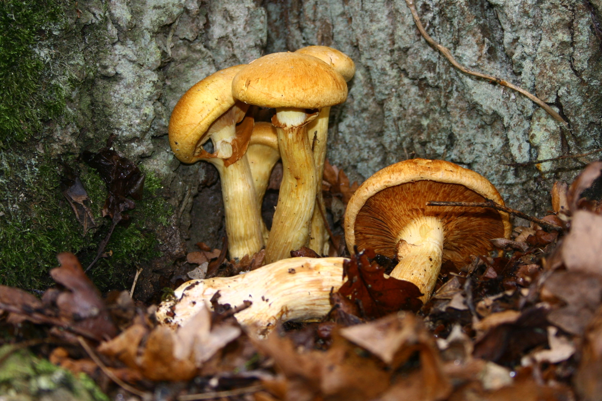 Gymnopilus junonius in a wood near Saulx-les-Chartreux, France.